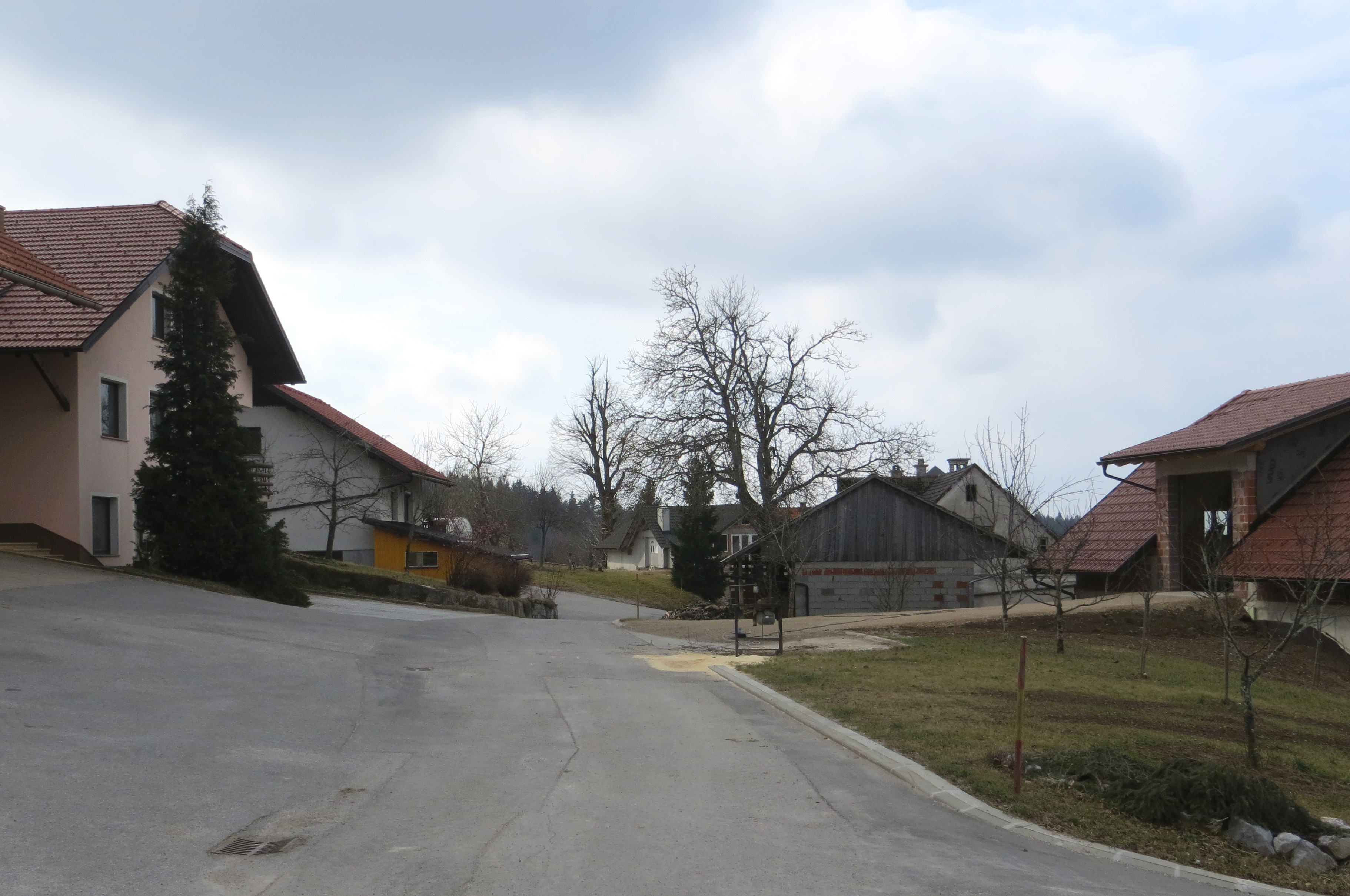 Stražišče, Municipality of Cerknica, Slovenia